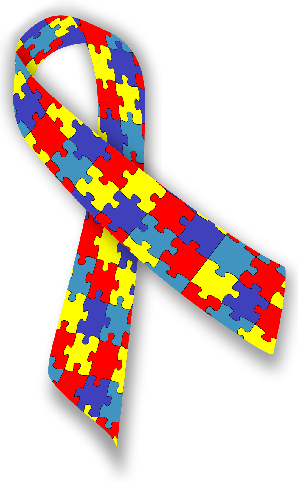 A "puzzle" ribbon to promote Autism and Aspergers Awareness.